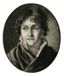 Louise-Emmanuelle de Châtillon (1763—1814)